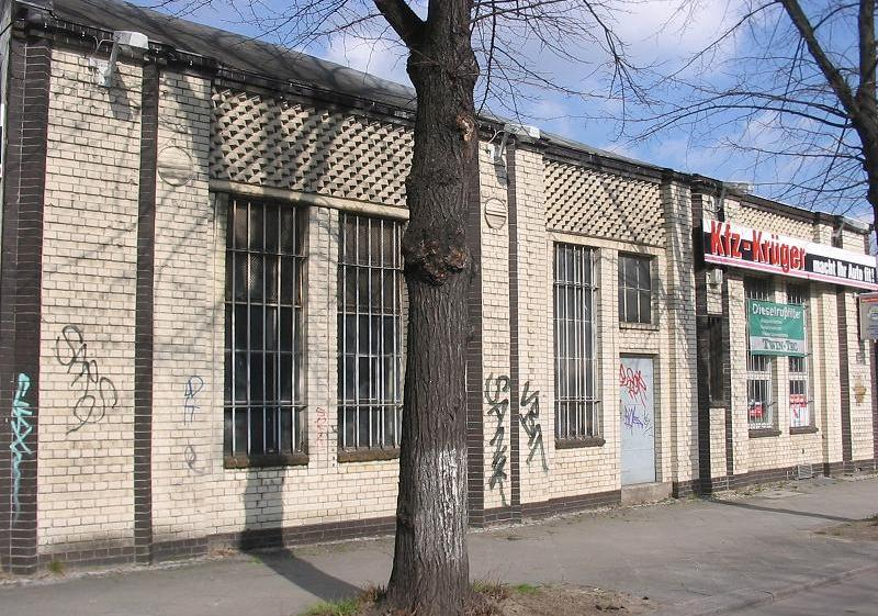 Listed laundry, built in 1911/12 by Bruno Taut and Franz Hoffmann, at the Teilestraße in Berlin-Tempelhof.